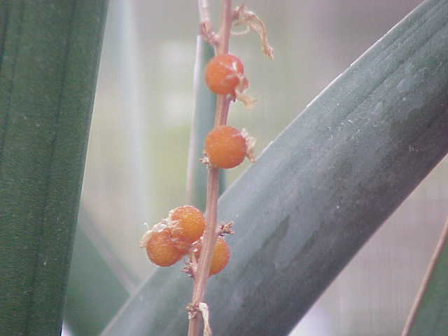 Species: Sanseveria ehrenbergii Family: Dracaenaceae Image No. 1